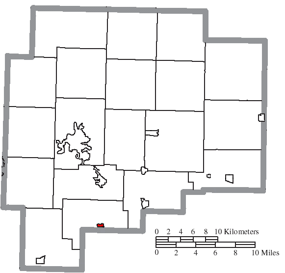 Map of the municipal and township boundaries of Guernsey County, Ohio, United States, as of the 2000 census, with the location of the village of Pleasant City highlighted. Township borders are shown only in unincorporated areas in order to differentiate incorporated and unincorporated areas more clearly.